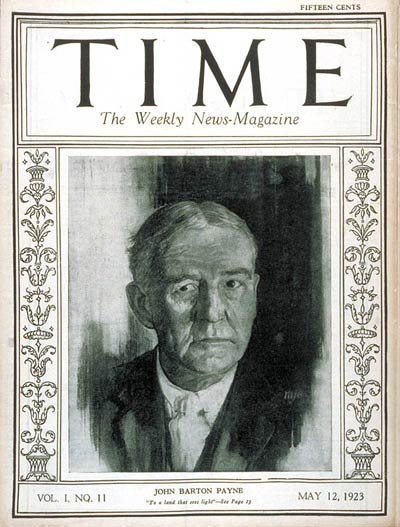 TIME Magazine Cover Featuring John Barton Payne (12 May 1923)